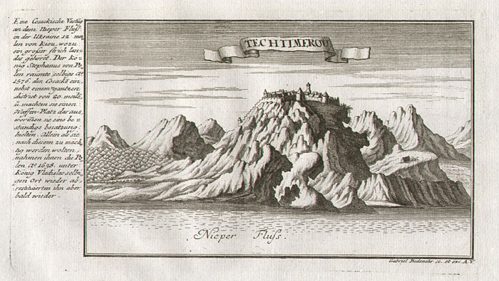 Techtimerov in XVII.